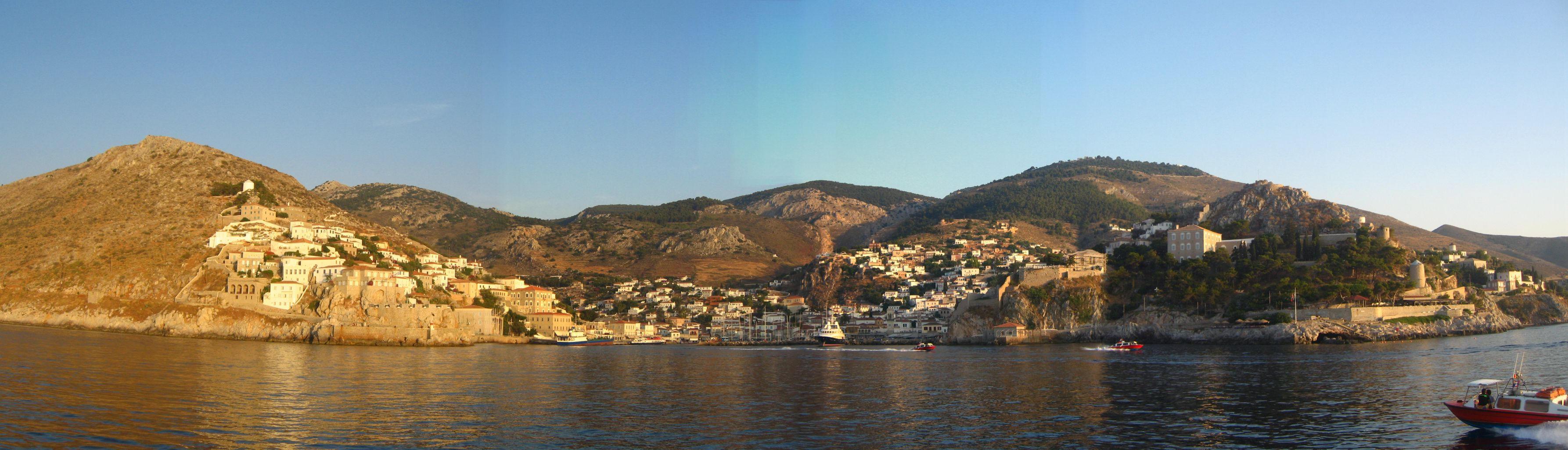 Hydra port panoramic.